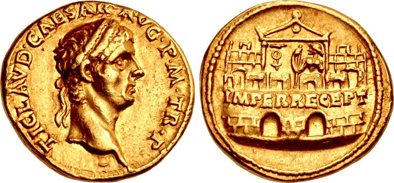 Claudius. AD 41-54. AV Aureus (19mm, 7.70 g, 11h). Lugdunum (Lyon) mint. Struck AD 41-42. TI CLAVD • CAESAR • AVG • P • M • TR • P, laureate head right / IMPER RECEPT across top of front wall, view of the Castra Praetoria: in front is a wall with two small arched openings below and five battlements on top; above and behind it stands a soldier on guard looking left, holding spear in right hand; aquila to left; behind him is a pediment in which is a crescent, on two pillars, flanked left and right by walls, each with a battlement above and an arch below. RIC I 7; von Kaenel Type 2, 28 (V14/R19) = Lyon 5, 3a (D13/R12) = CNR XIV 76 (this coin, illustrated in von Kaenel and CNR); Calicó 359a (this coin illustrated); BMCRE 5; BN 23; Biaggi 205. EF. A handsome and historically important coin. This type commemorates the “reception of the emperor” (imperator receptus) at the Praetorian Camp and the protection the Praetorian Guard afforded Claudius in the days following the assassination of Caligula. The barracks were located to the northeast of Rome beyond the Servian Wall between the Porta Viminalis and the Porta Collina (part of the structure was later incorporated into the Aurelian Wall and can still be seen today). Issued over a number of years in both gold and silver, this type was no doubt struck to serve as part of the annual military payments the emperor had promised the Guard in return for their role in raising him to the throne.